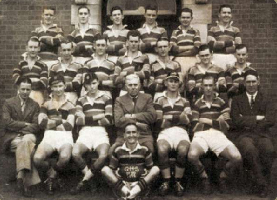 Glenwood Boys High 1st XV 1935